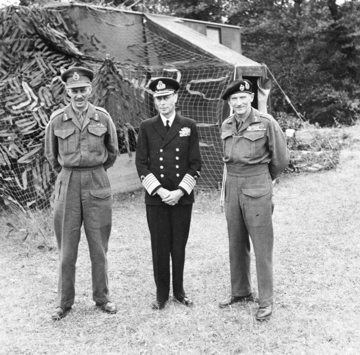 The British Army in the Normandy Campaign 1944 The King with Lieutenant-General Dempsey and General Montgomery, 16 June 1944.